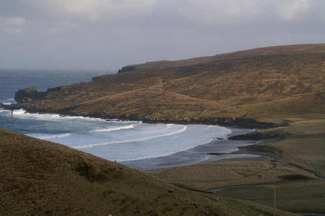 Norwick The bay of Nor Wick from the north in a NE gale, looking towards the Hill of Clibberswick.